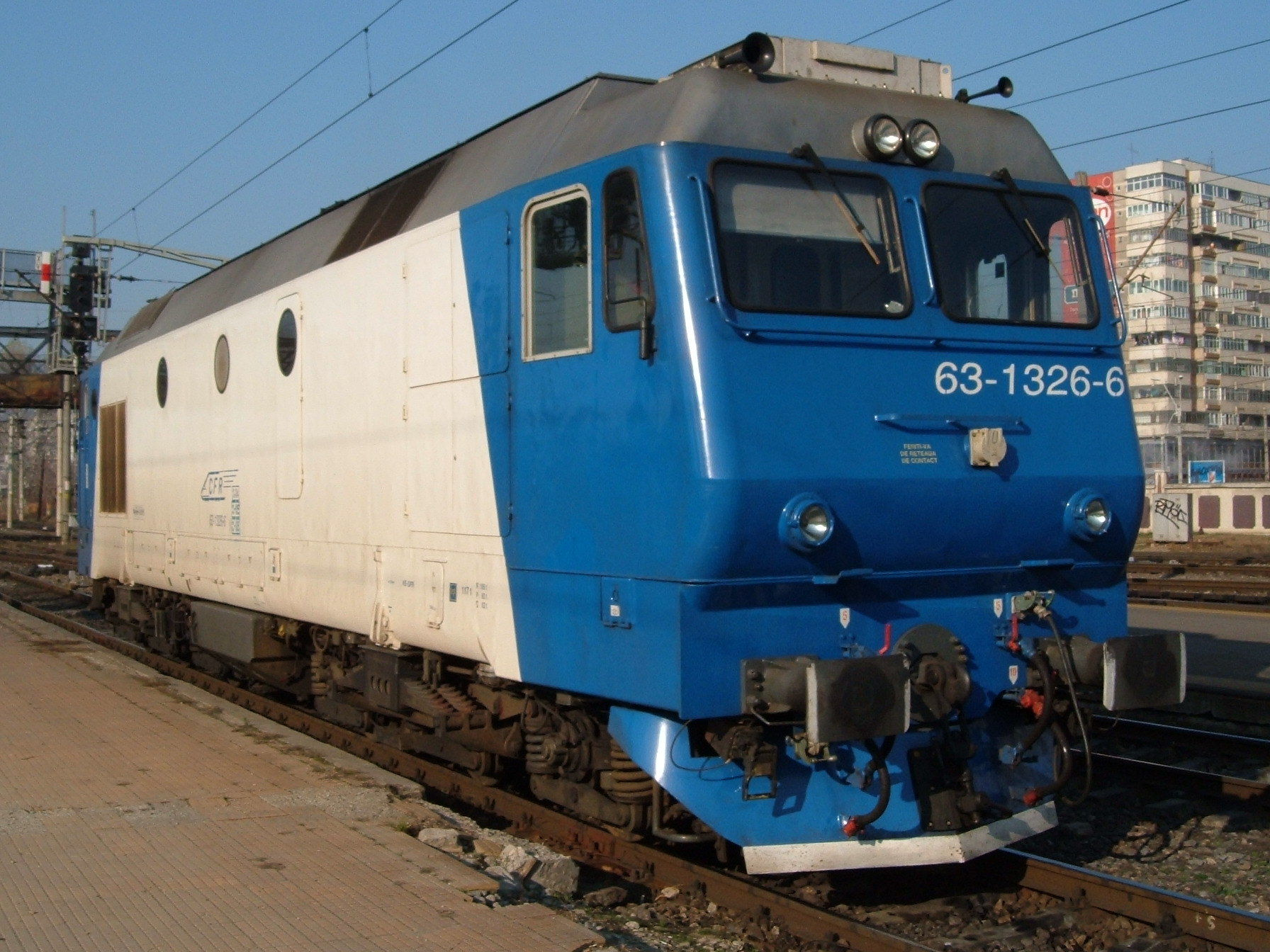 CFR Class 63 locomotive in Bucureşti Nord station. Park number 63-1326-6